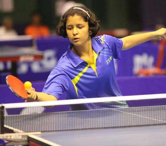 This photo taken during an international table tennis match